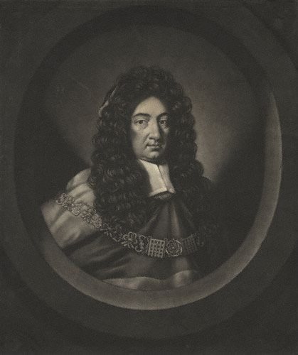 Sir William Scroggs (c1623-1683)